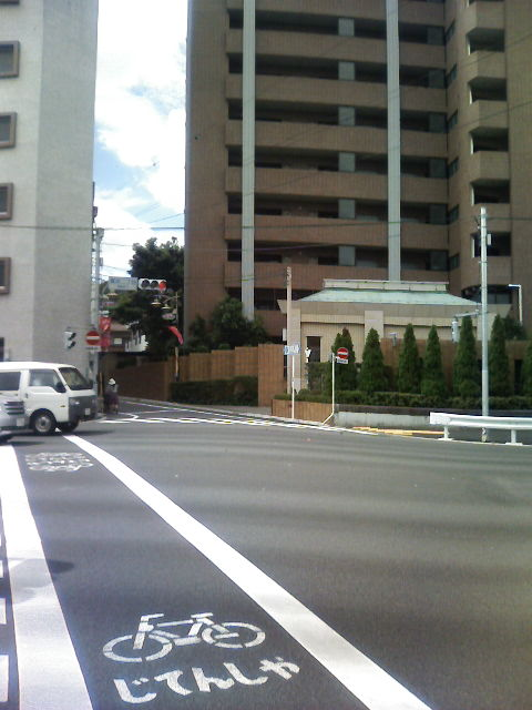 Tokyo prefectural road route427,Tokyo,Japan